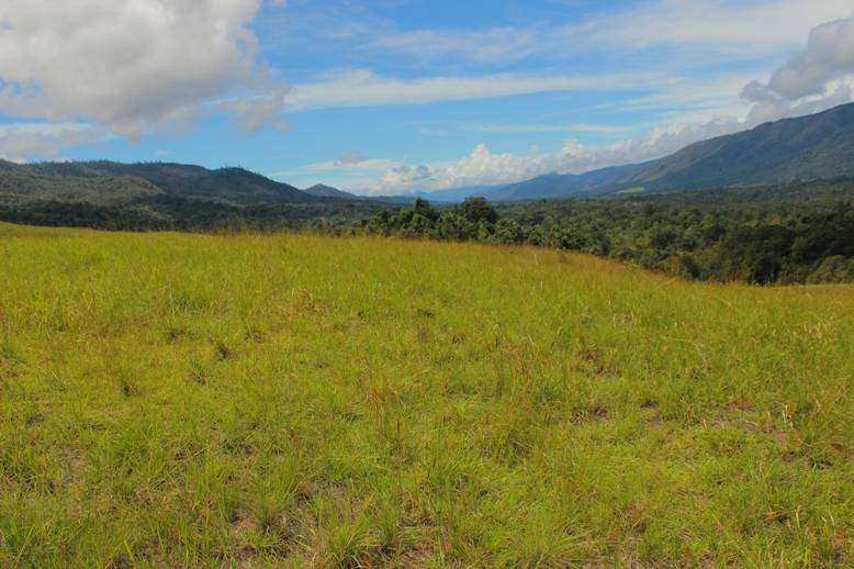 The vast grasslands found throughout the Kebar Valley.